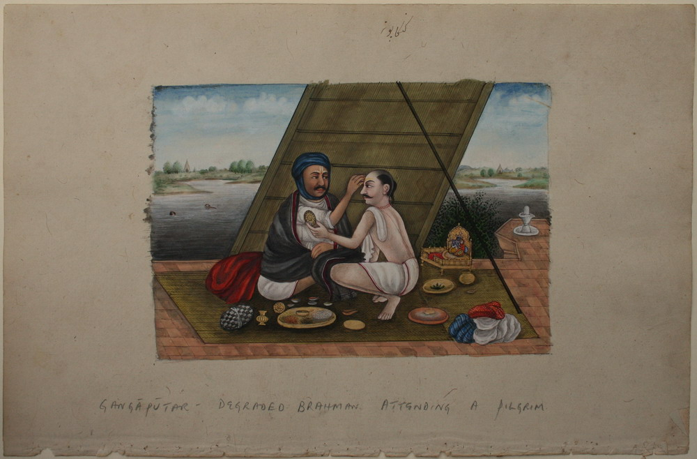 Gangaputra brahmin applying tilak to a pilgrim. Anglo-Indian school at Delhi, circa 1835. Opaque watercolour heightened with gold on warqa with 3 accompanying pages of description in Urdu text by Muhammad Bakhsh. Folio 20 x 33.3cm; image 12 x 17.5cm From an album commonly referrerd to as of 'castes and occupations' with paintings the resulting from a hybrid of Mughal court painting traditions with some of those from European traditions, such as vibrant colour and precise detail with shading and prespective. These were further combined by the artist's sensitivity in capturing individual character traits at a standard of skill comparable to some produced for Col. James Skinner in 1825, and it is thought the artist here may have been influenced by that particular Skinner album. Gangaputra brahmins are largely to be found with their communities along the banks and ghats where they officiate at holy occasions.